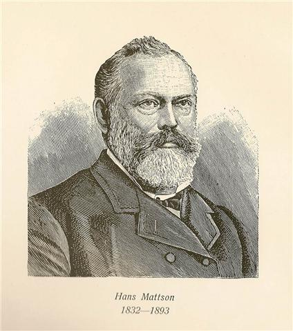 A picture of the colonel Hans Mattsson.